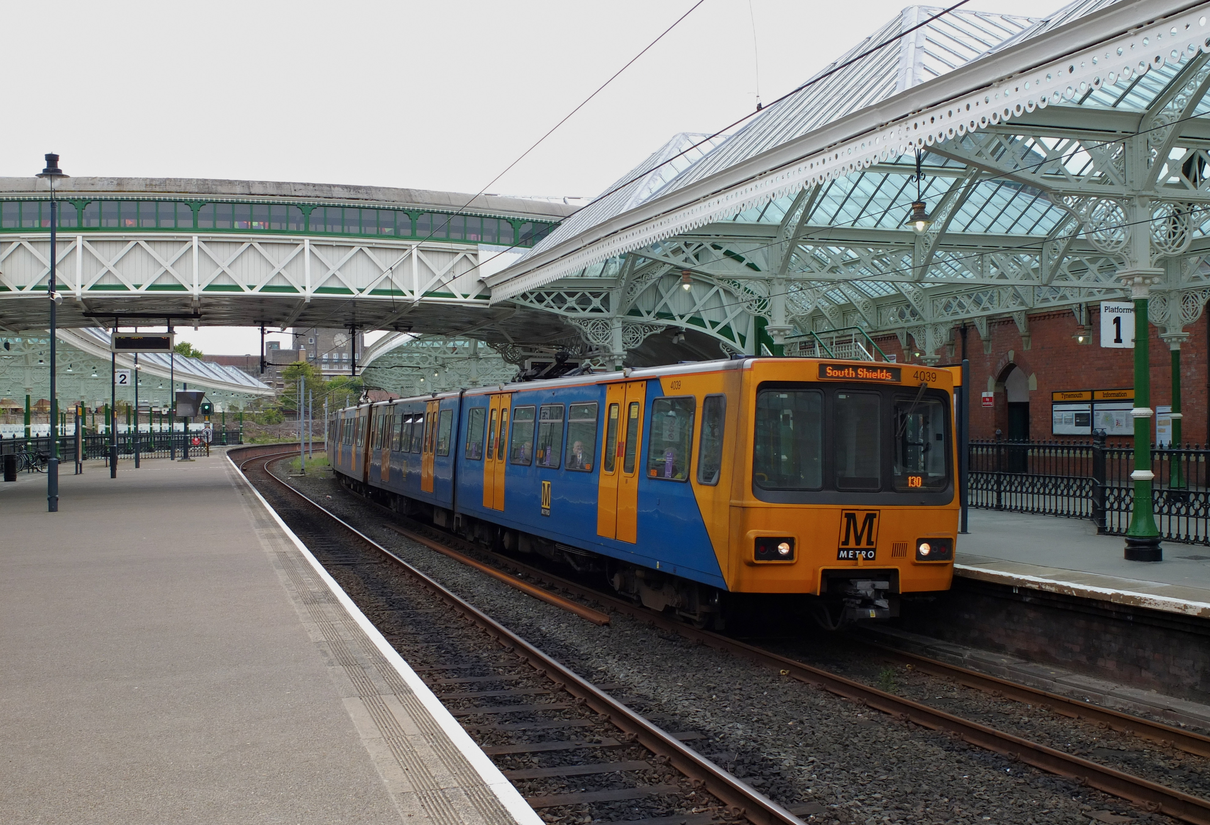 4039 , Tynemouth